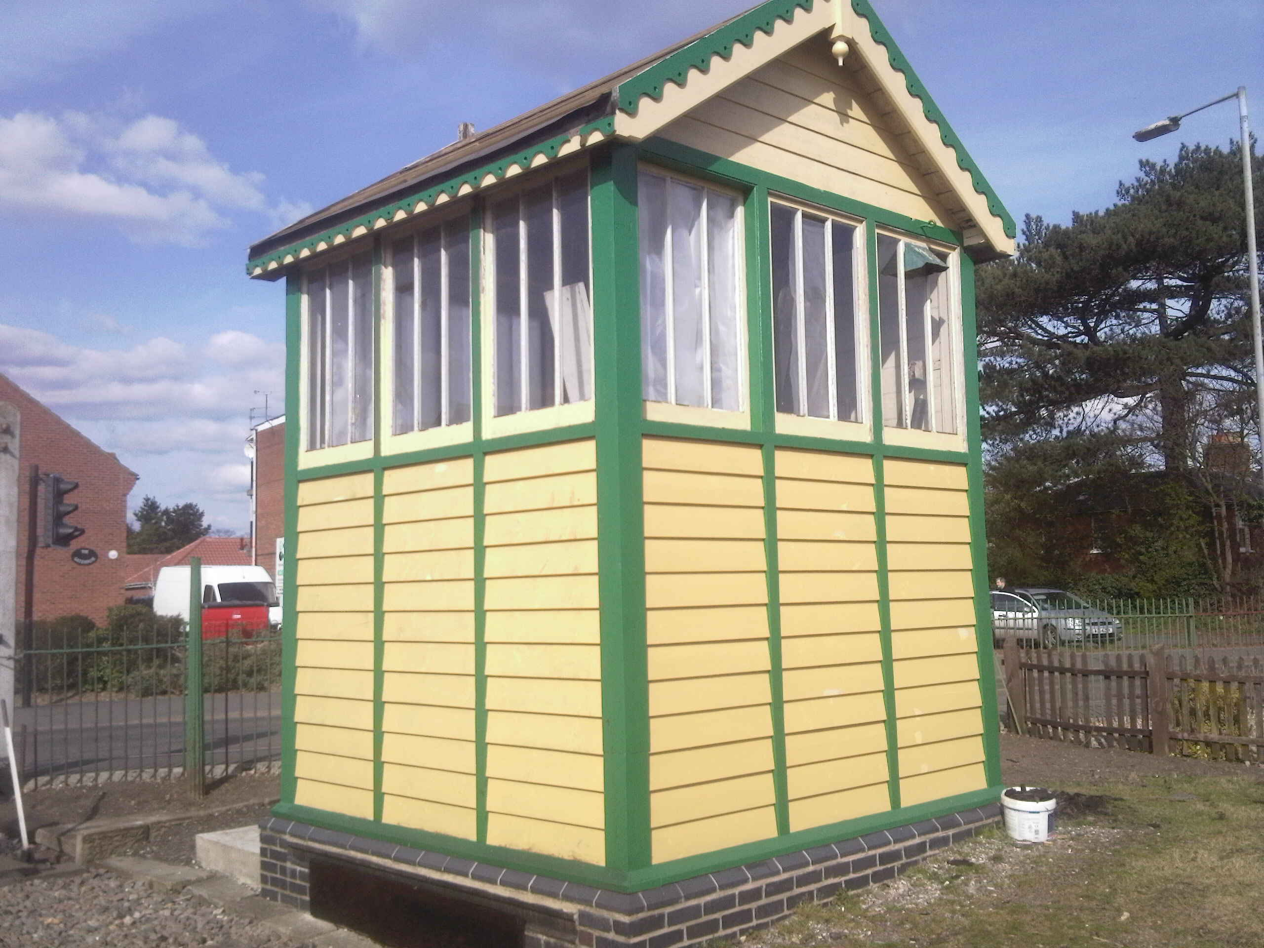 Partially restored Dereham North (ex-Laundry Lane) NSJR signalbox